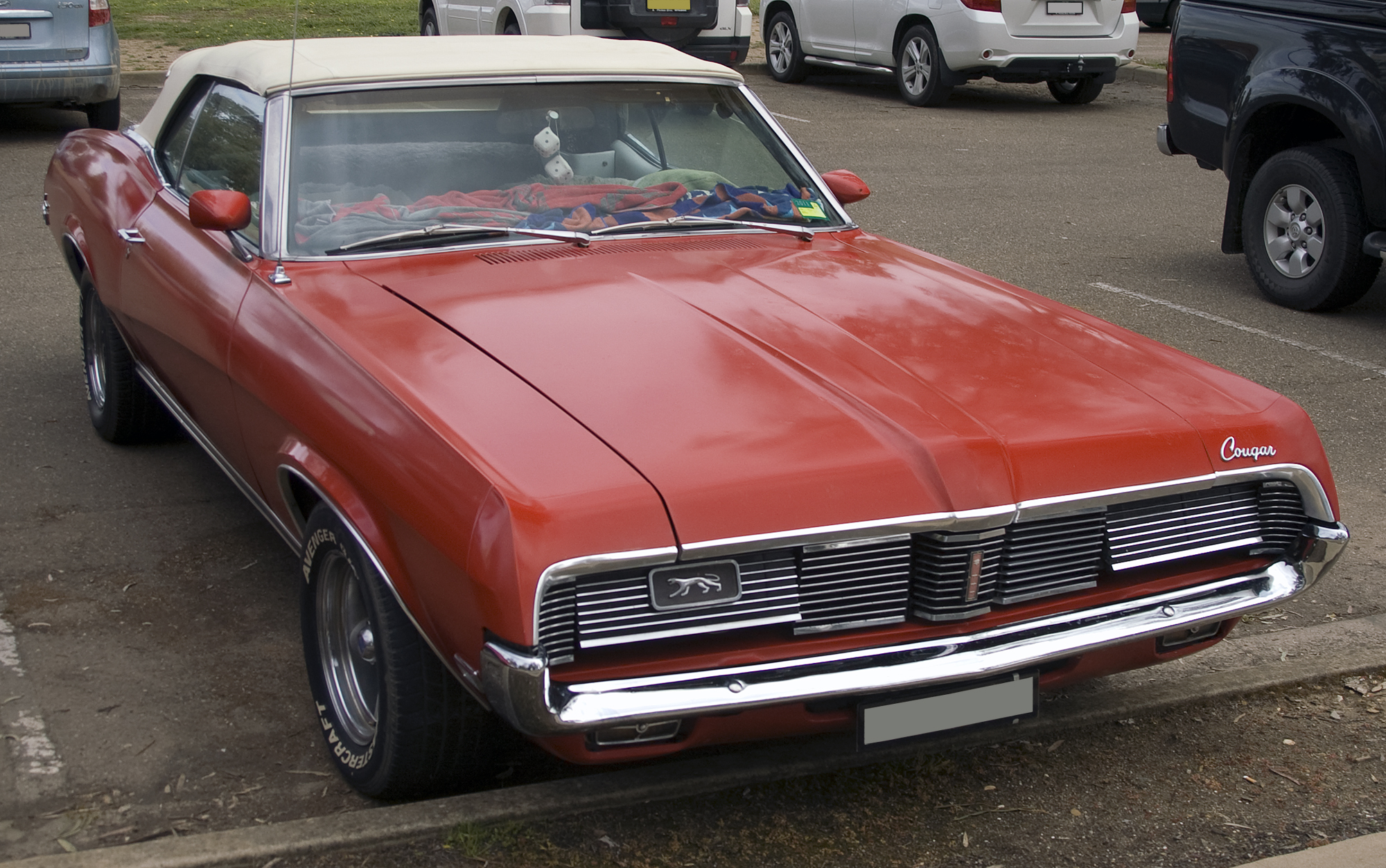 1969 Mercury Cougar XR-7 Coupe.